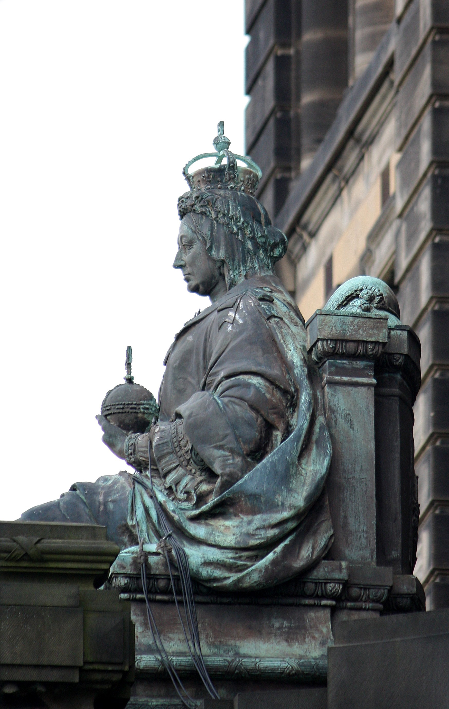 Statue of Queen Victoria on the Glasgow Royal Infirmary. Glasgow, Scotland.